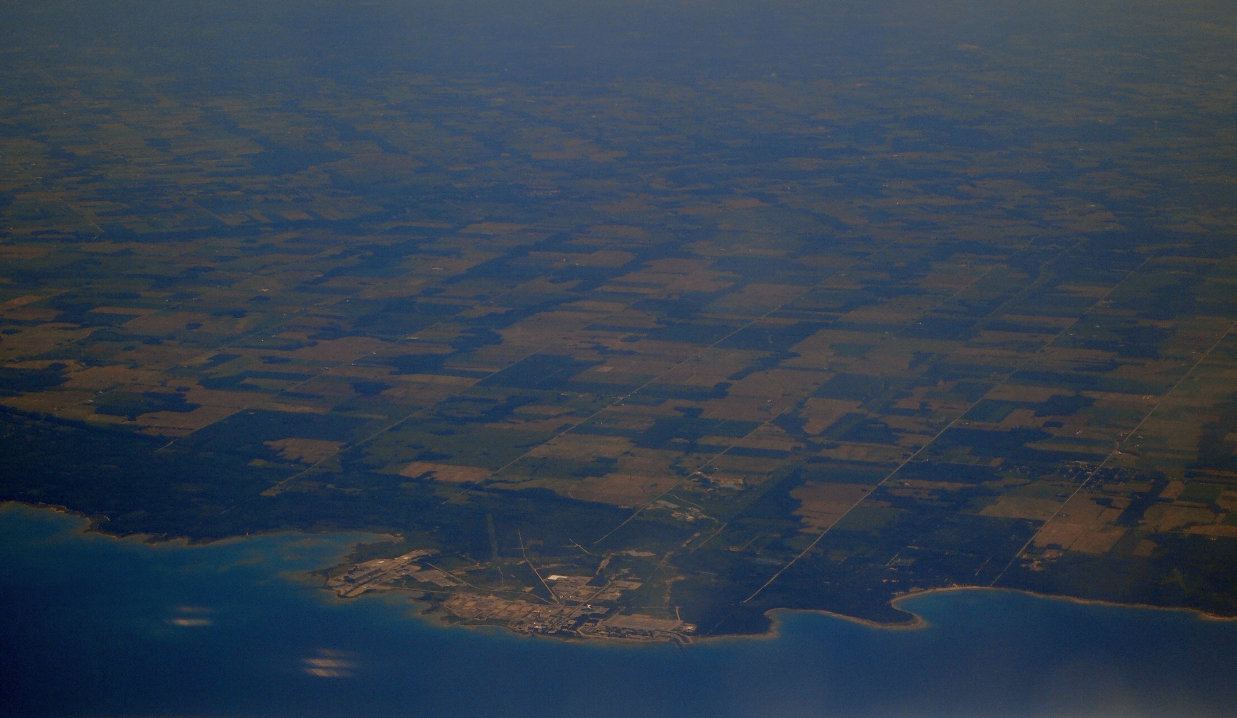 Bruce Nuclear Generating Station From Plane